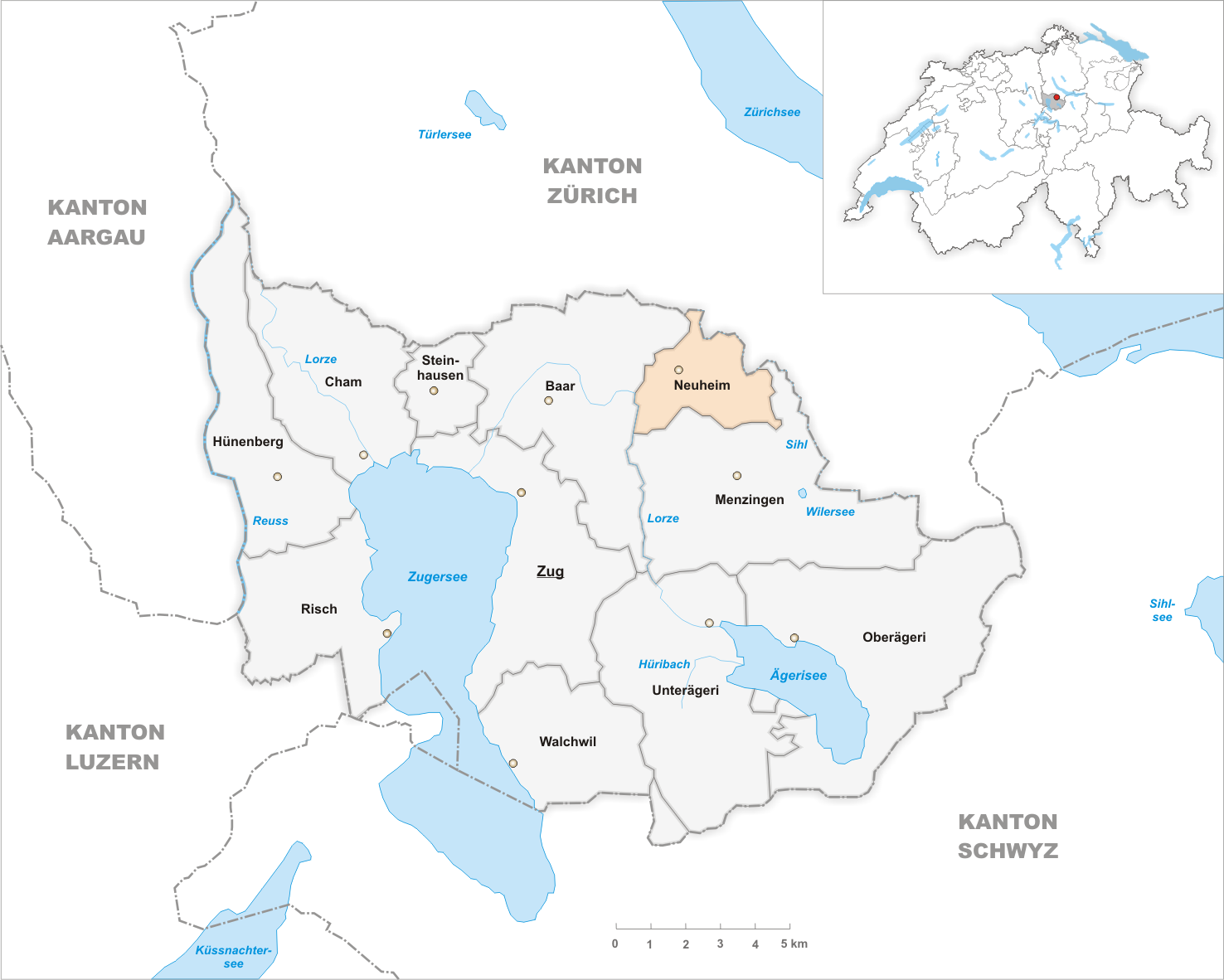 Municipality of Neuheim